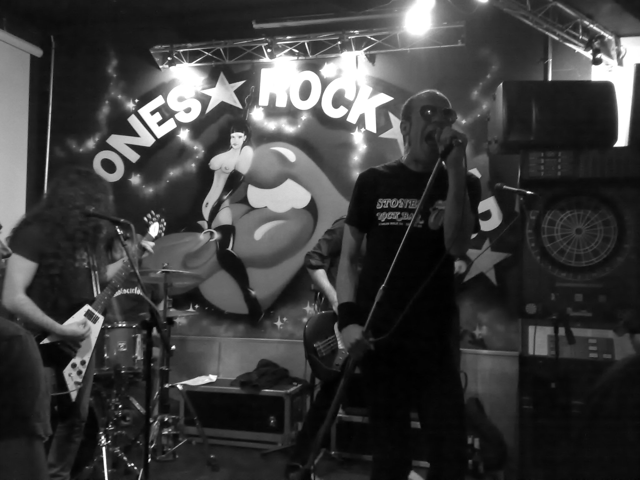 Motociclón (Spanish heavy metal-punk band) playing at Stones Bar in Vallecas (Madrid, Spain).